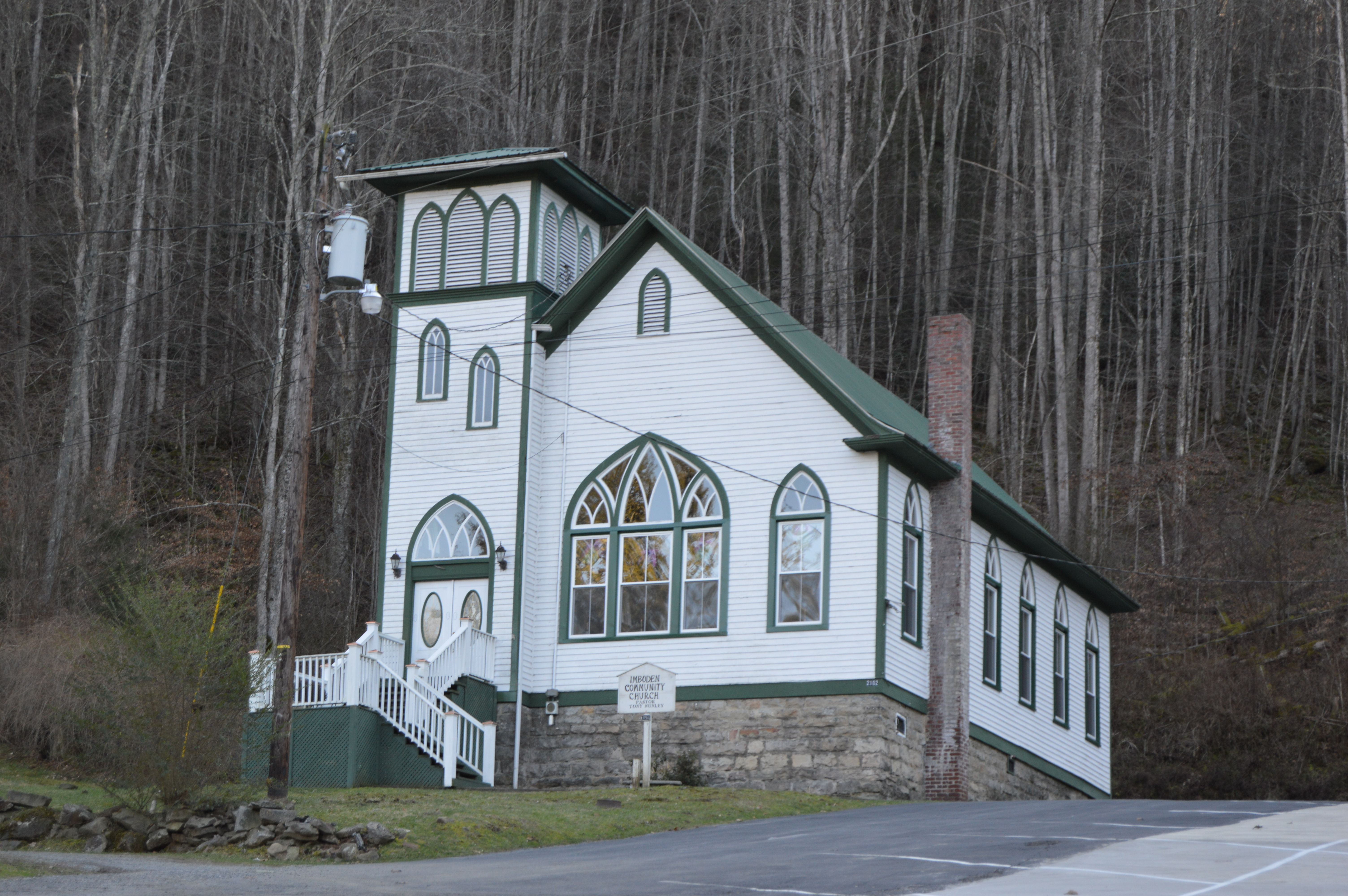 Front and western side of the Imboden Community Church, located on State Route 68 at Imboden in Wise County, Virginia, United States.